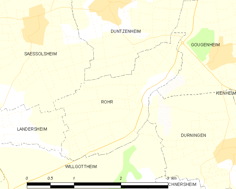 Map of French municipality